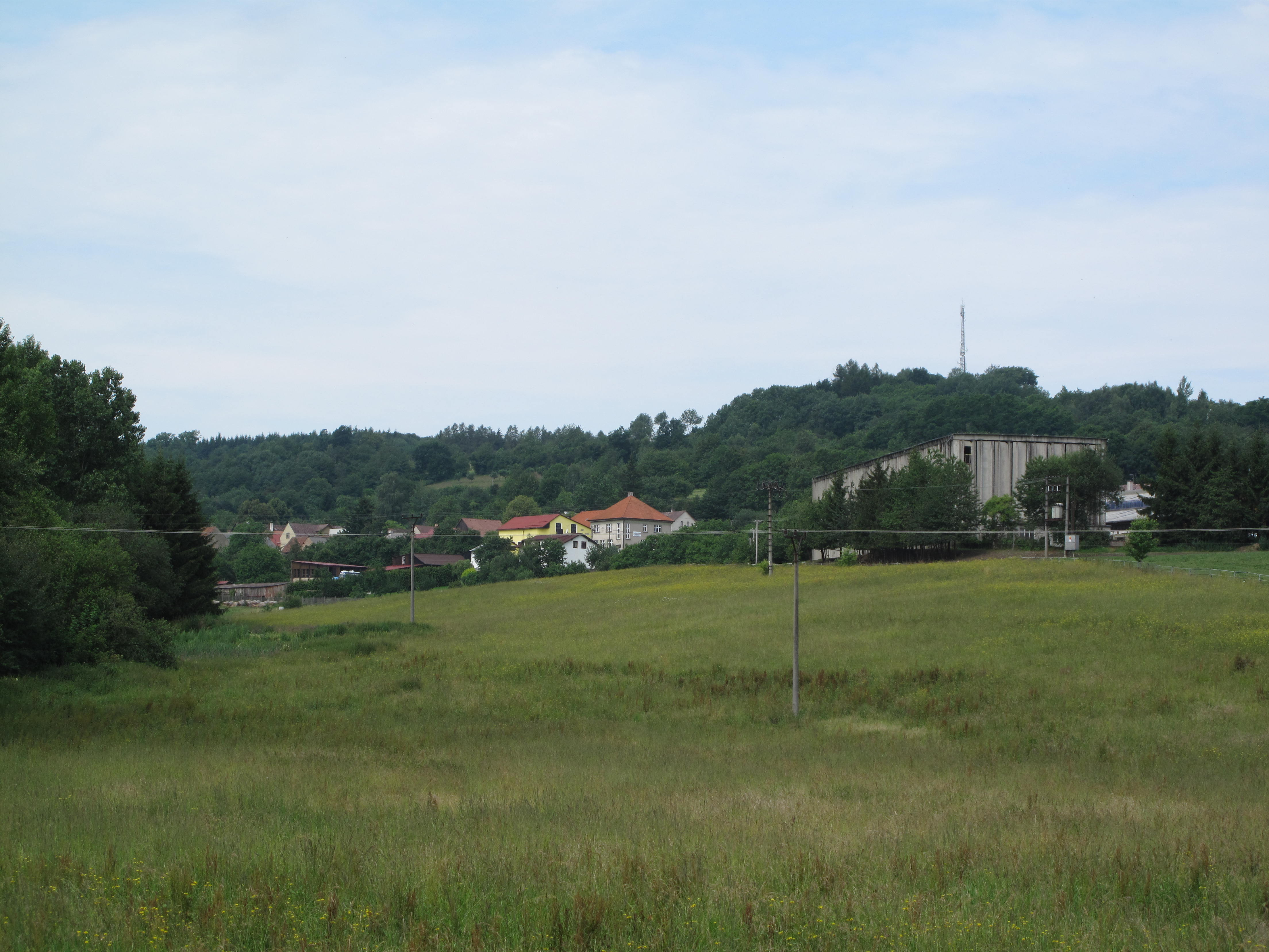 Stráž village in Domažlice District, Czech Republic